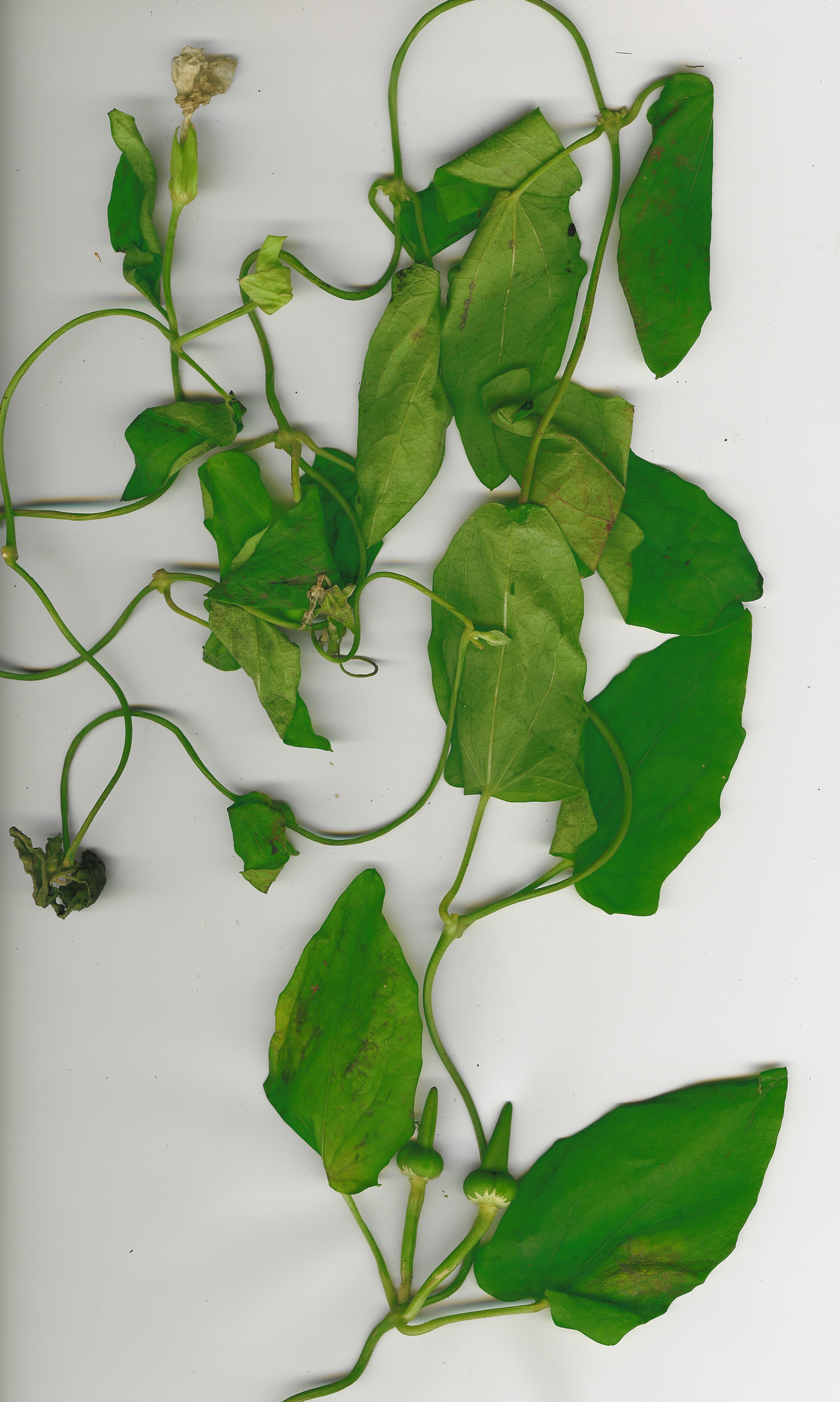 Thunbergia fragrans (plant). Location: Molokai, Kualapuu